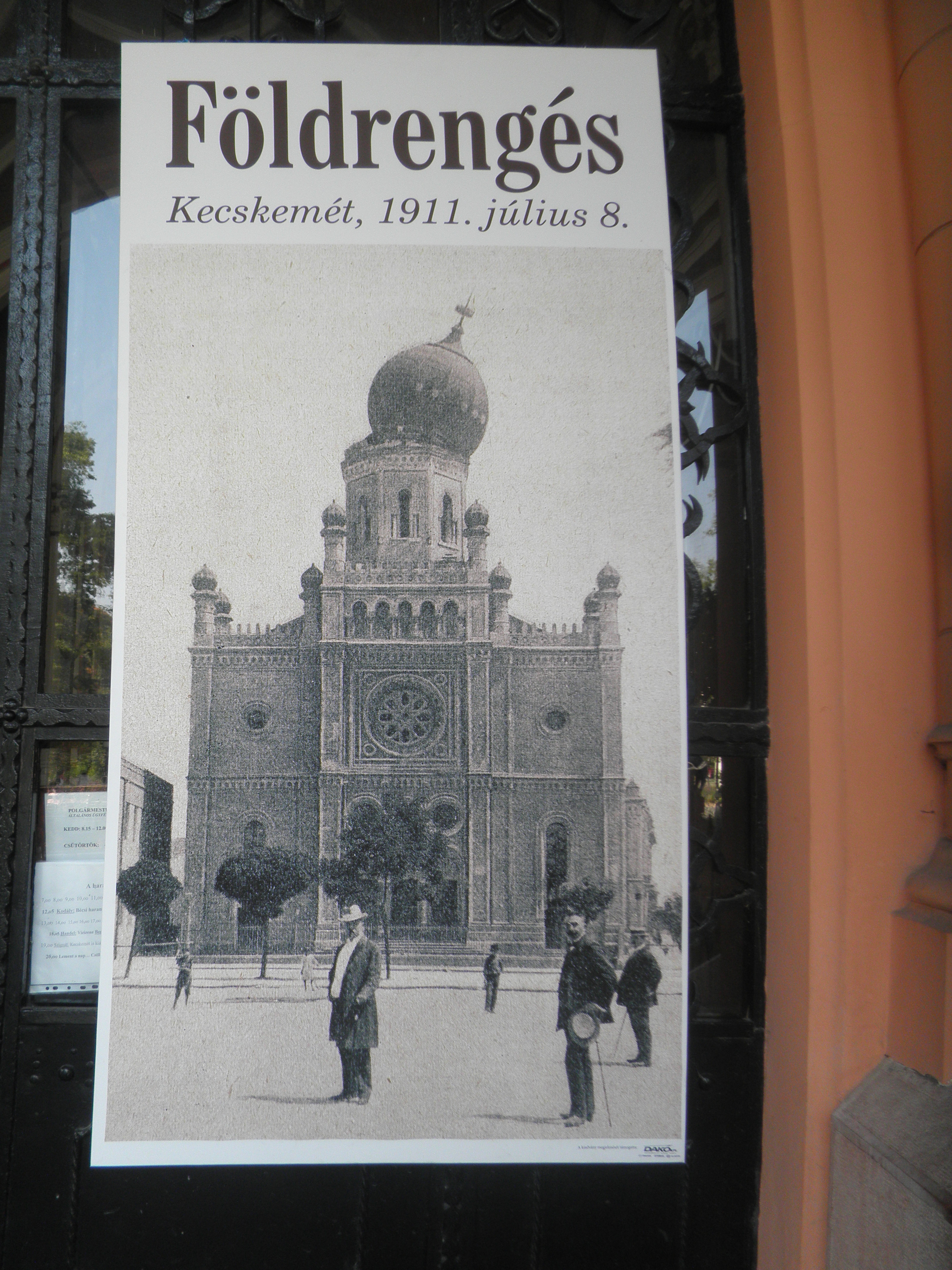 Synagogue in Kecskemét on local advert